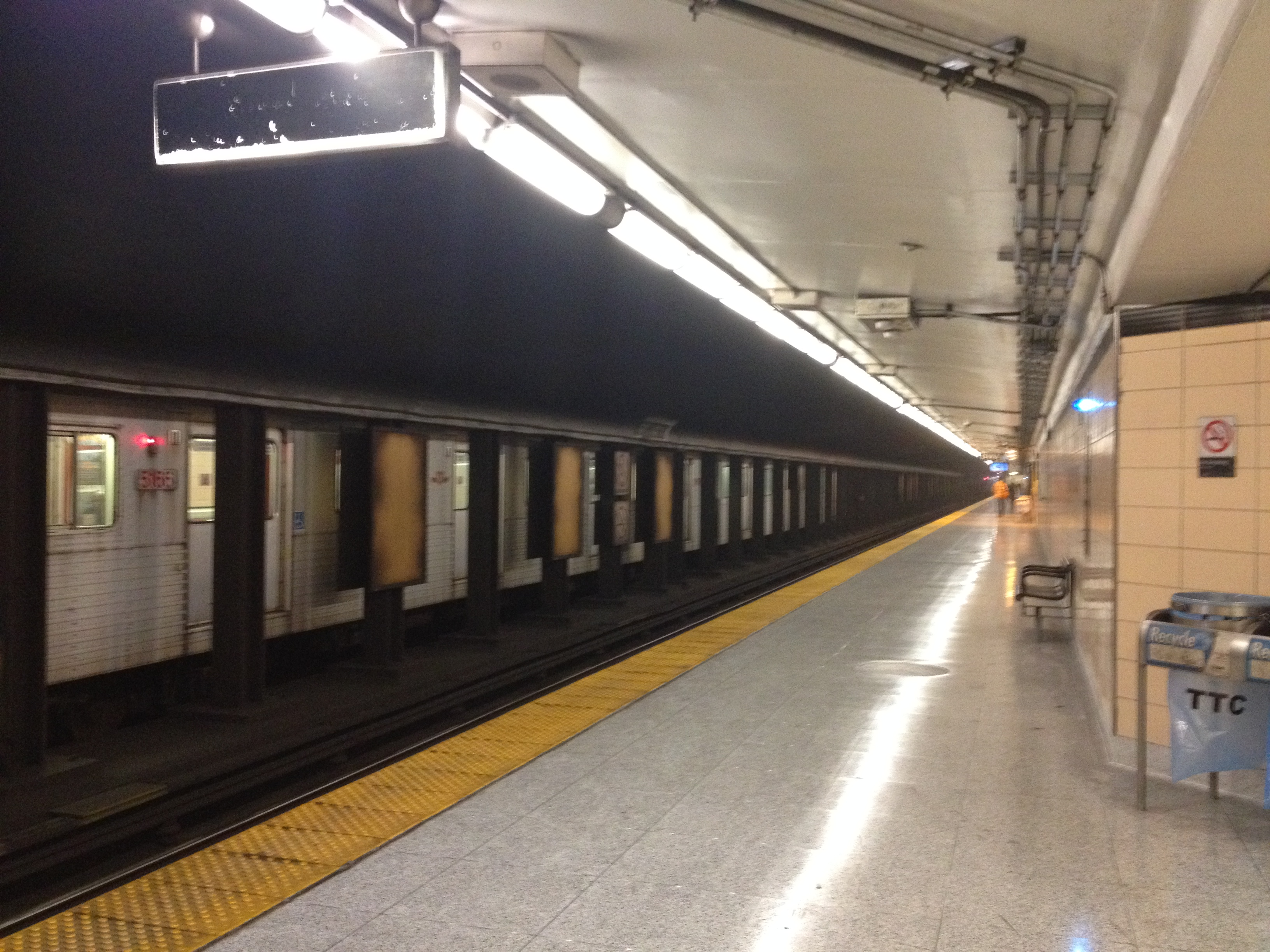 Westbound platform of the Royal York (TTC) subway station.